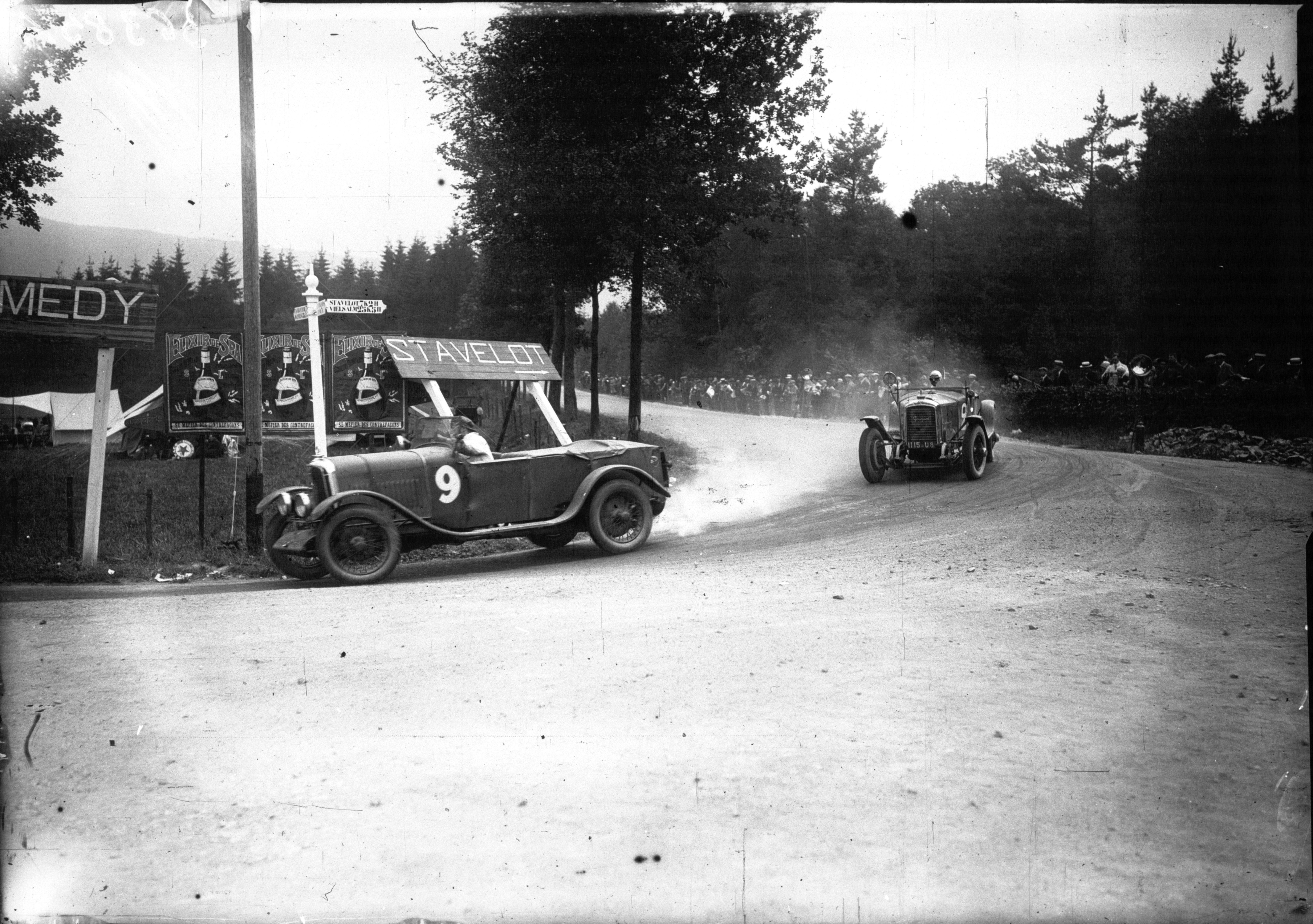 Poirier (Th. Schneider, #9) and André Boillot (Peugeot, #2) at the 1926 24 Hours of Spa.